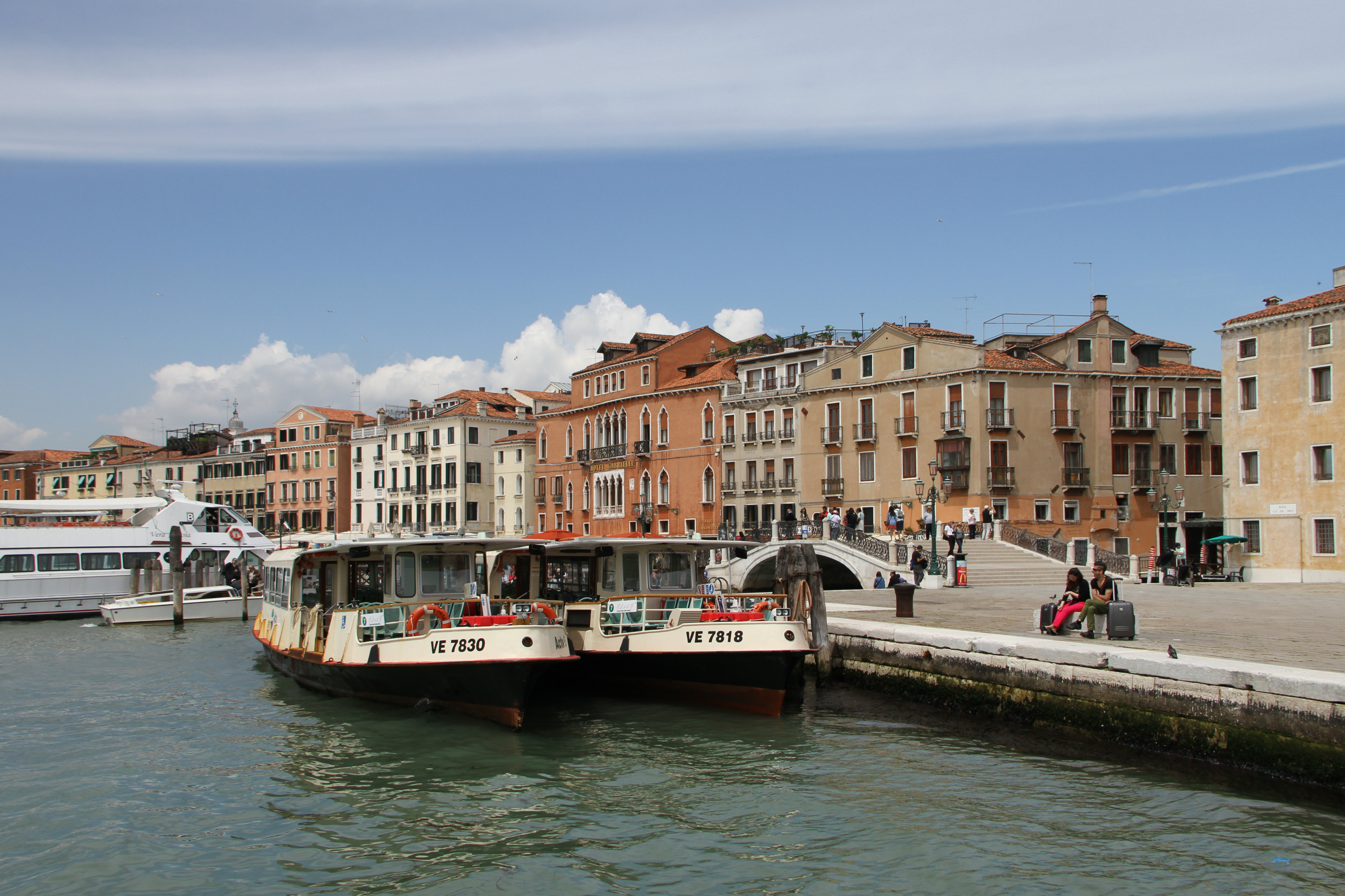 Two vaporetto's near Riva Ca' di Dio in Venice, Italy